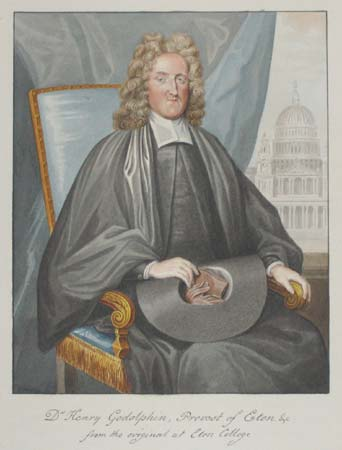 Dr. Henry Godolphin, Provost of Eton etc. from the original at Eton College. Artist: George Perfect Harding (1781-1853)